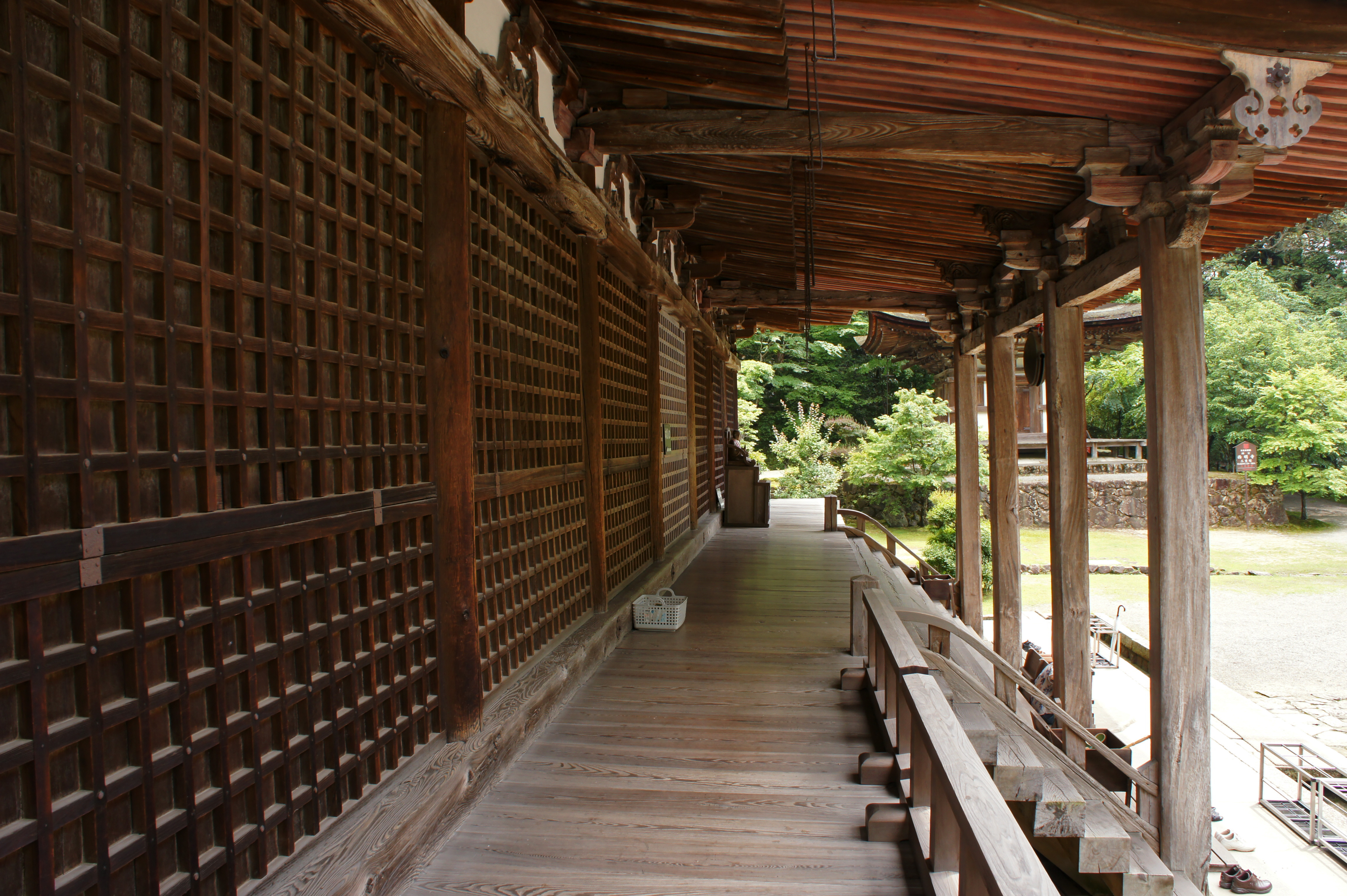 Saimyō-ji's Main Hall is a Japan's National Treasure in Kora, Shiga prefecture, Japan.